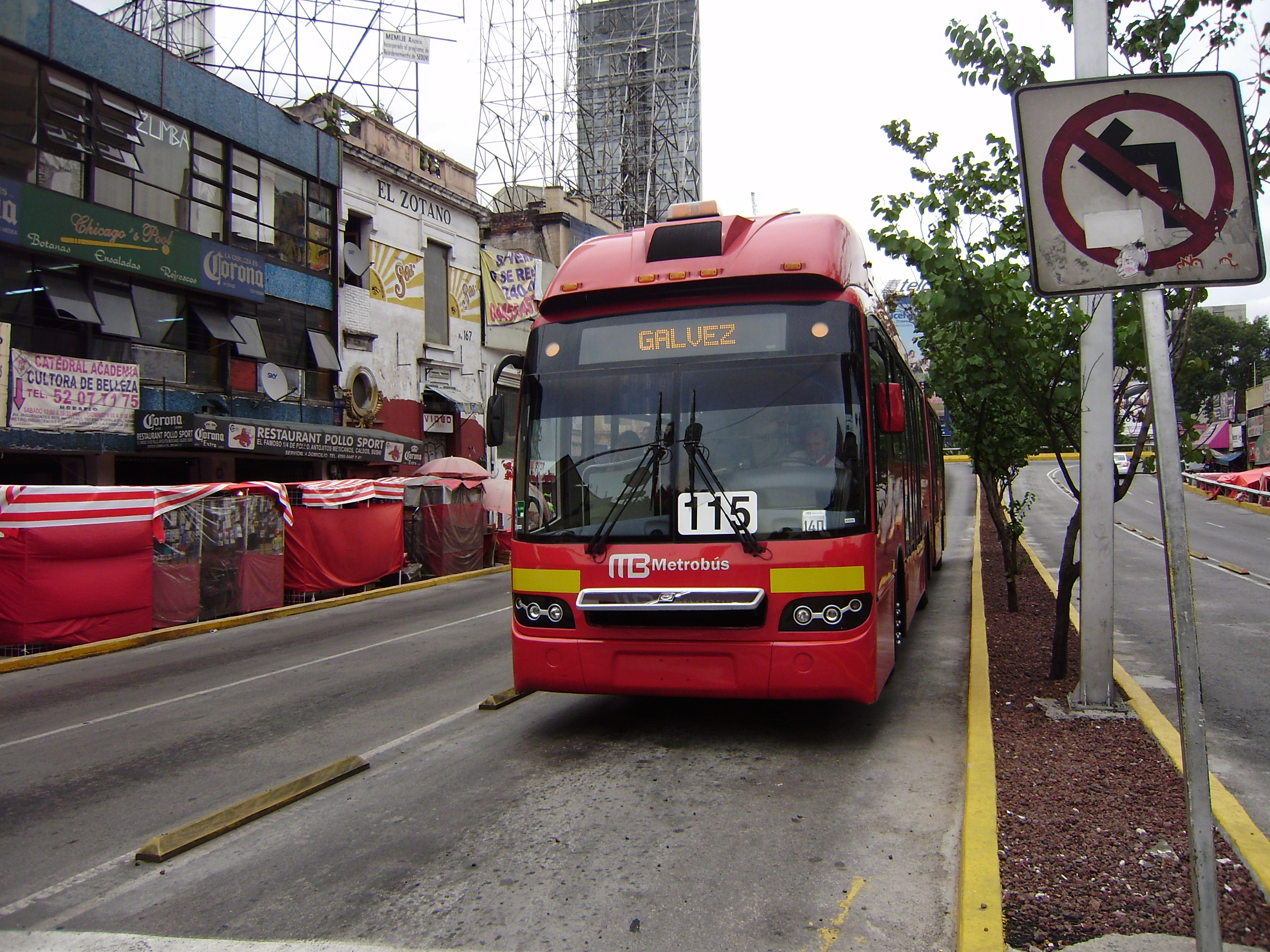 Metrobus (Rapid transit bus) of Mexico City, in Insurgentes Avenue.